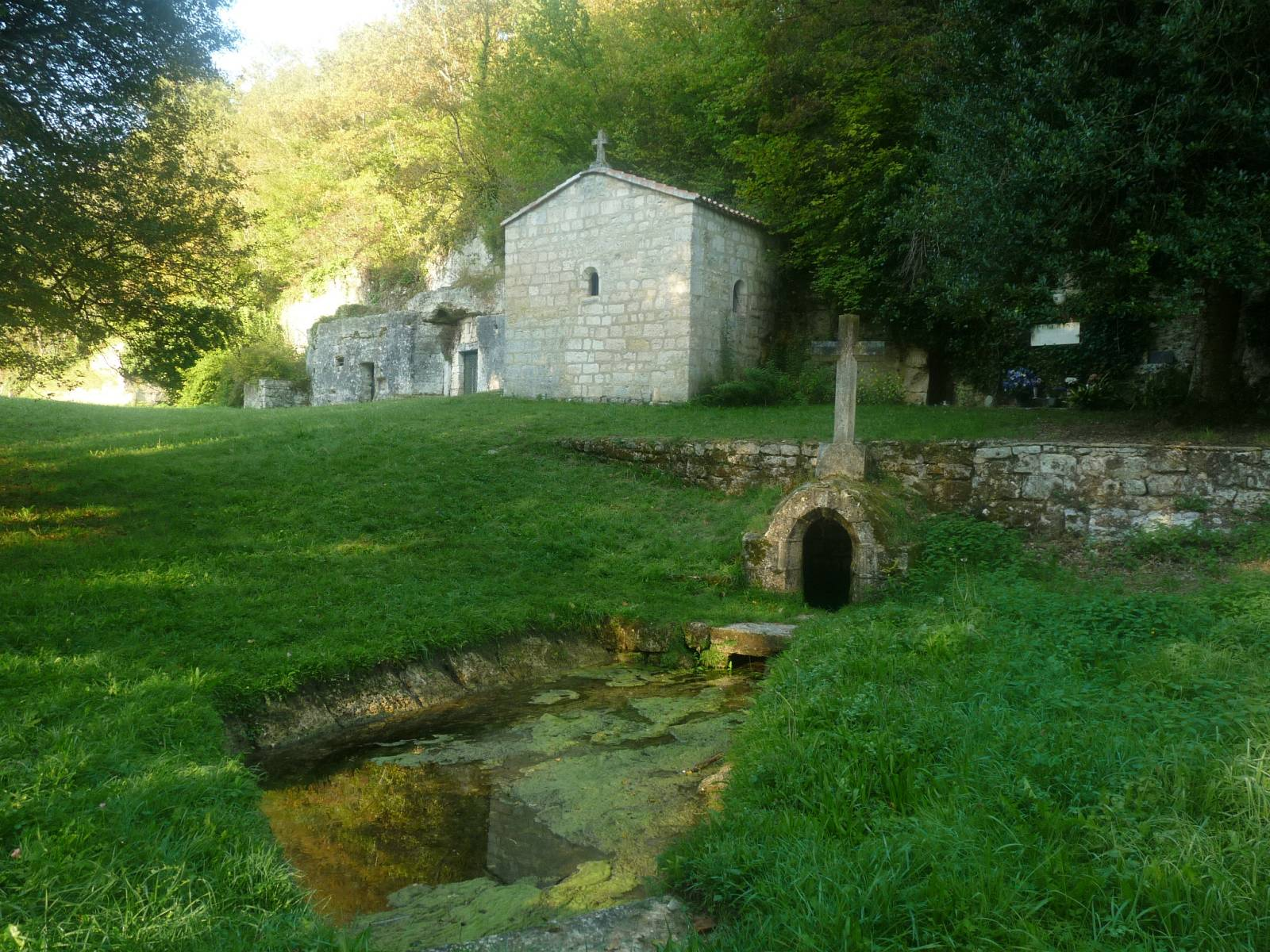 Hermitage of Bellevau, Sers, Charente, SW France. Miraculous fountain